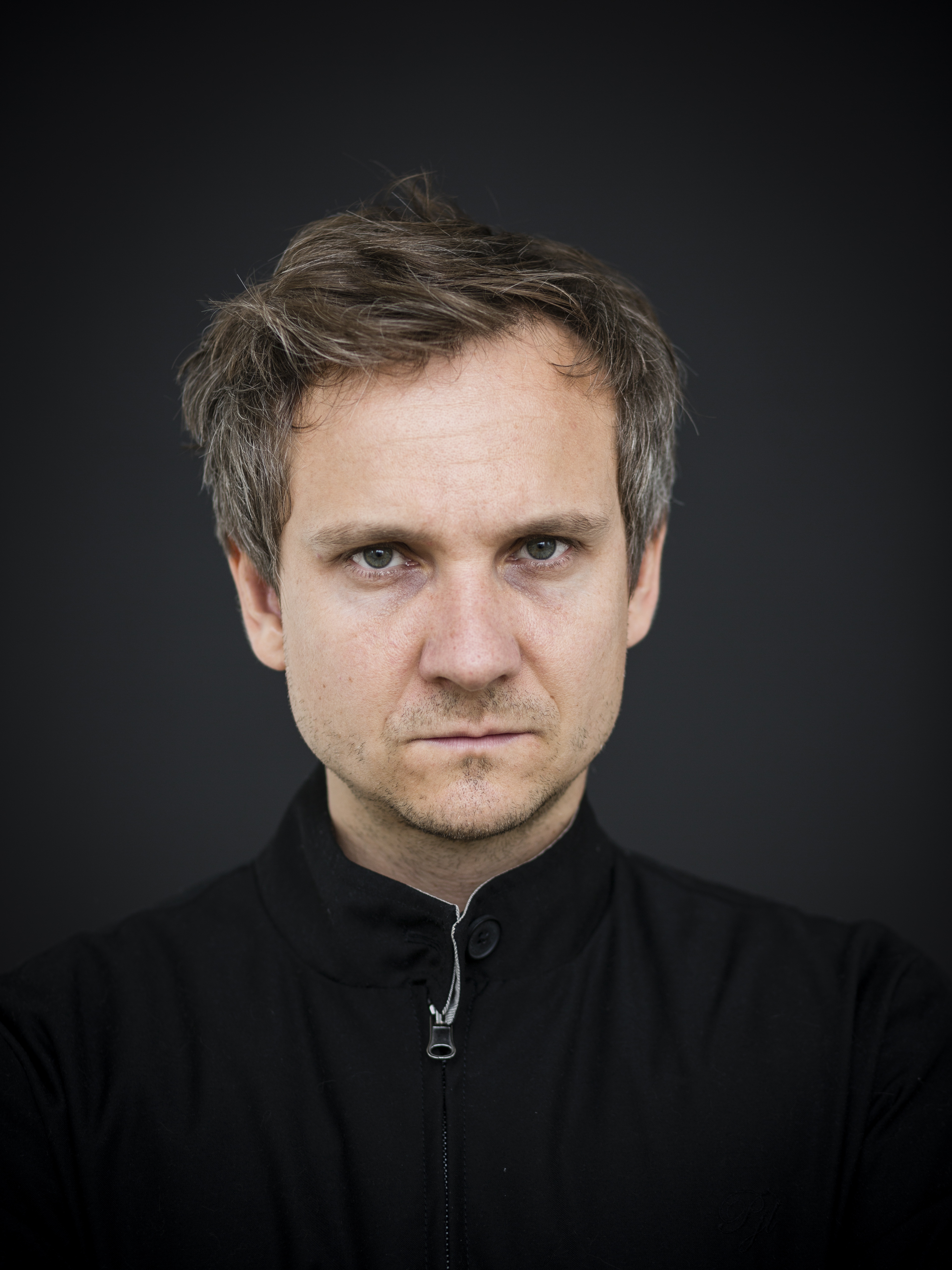 Sebastian Weber 2012